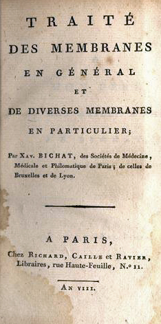 Title page of Xavier Bichat's Traité des membranes